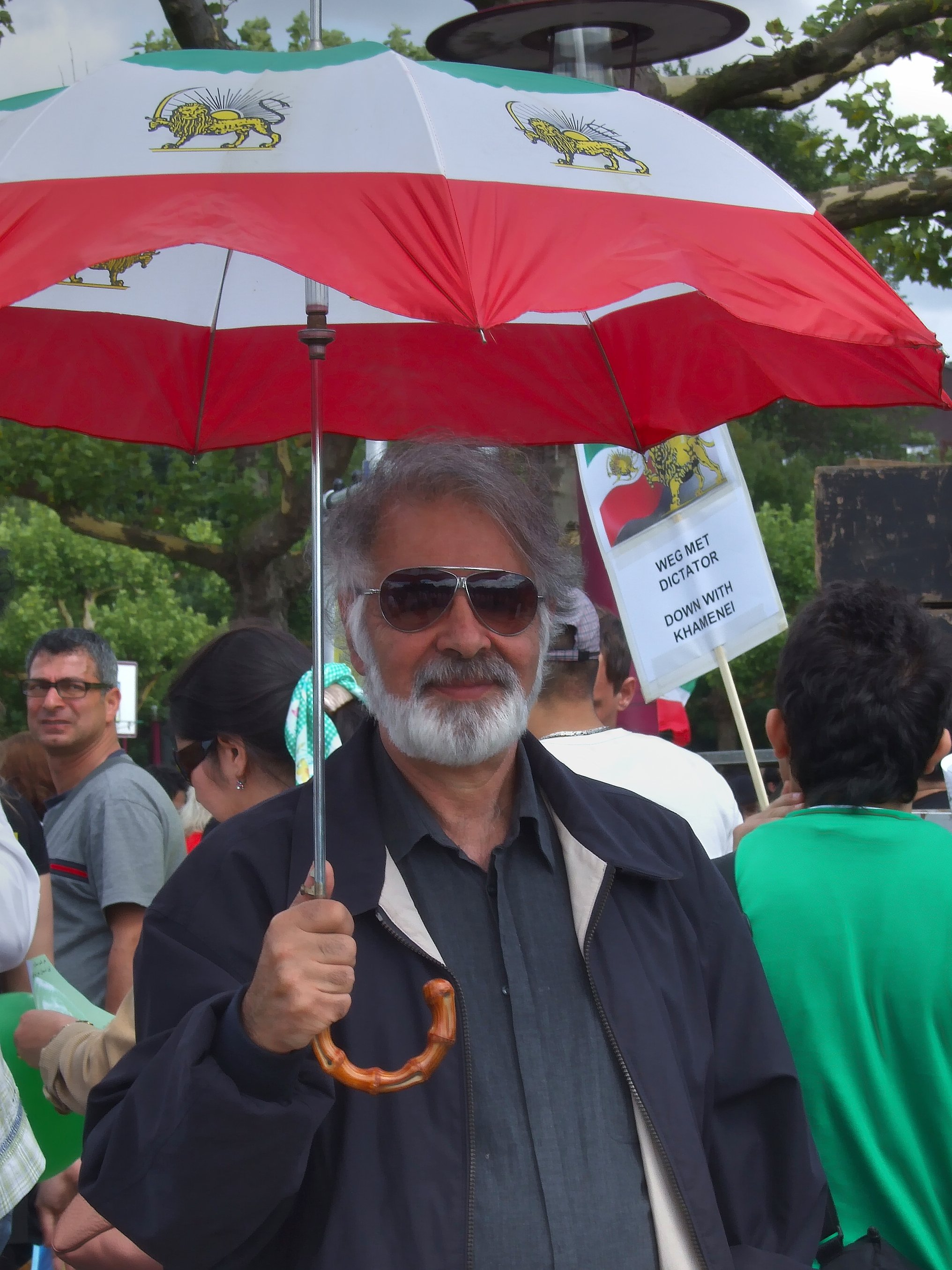 Man in Amsterdam, Netherlands, with multi-functional umbrella: it's also an Iranian flag with a Lion and Sun emblem!